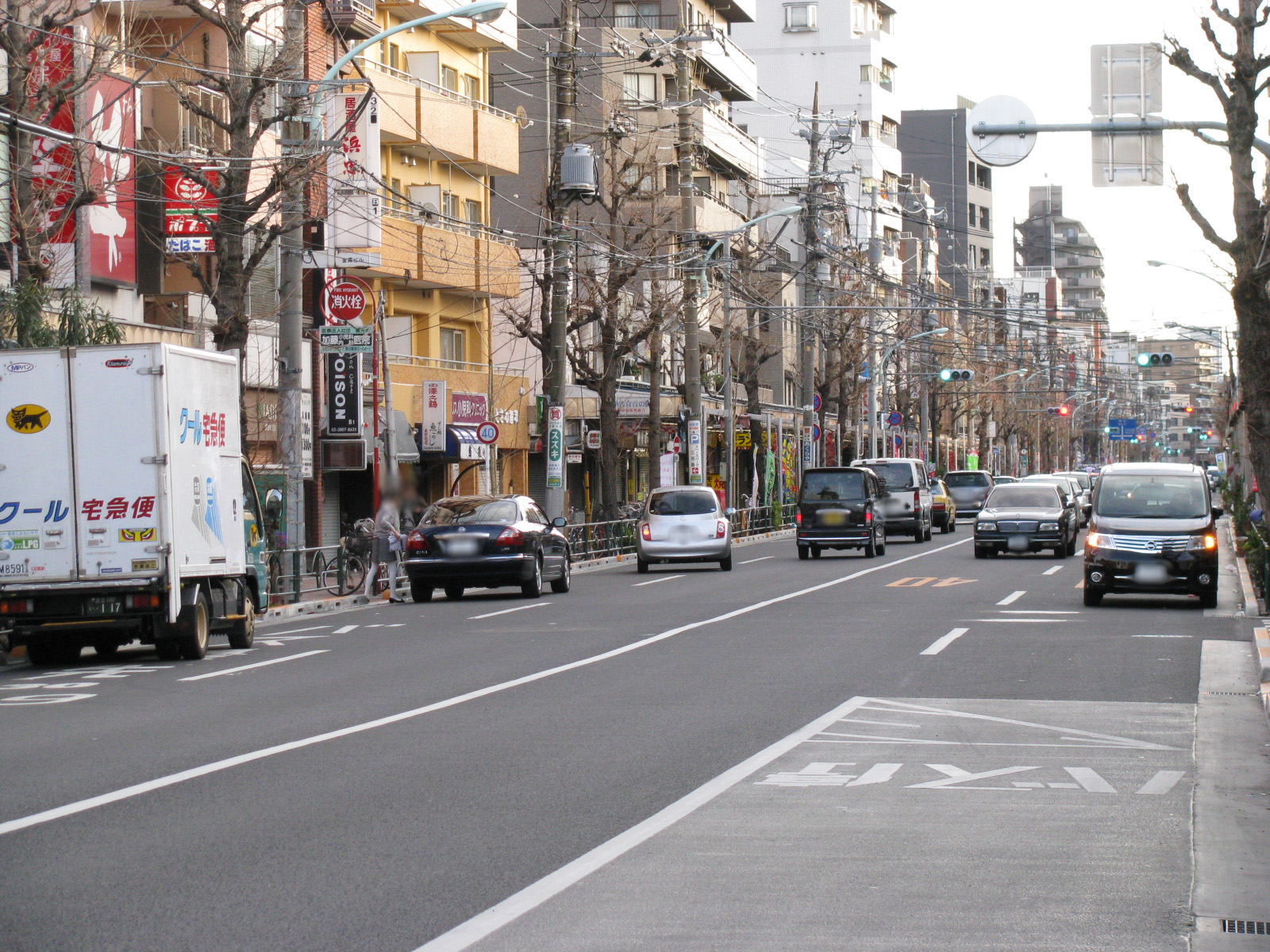 Mikawashima station